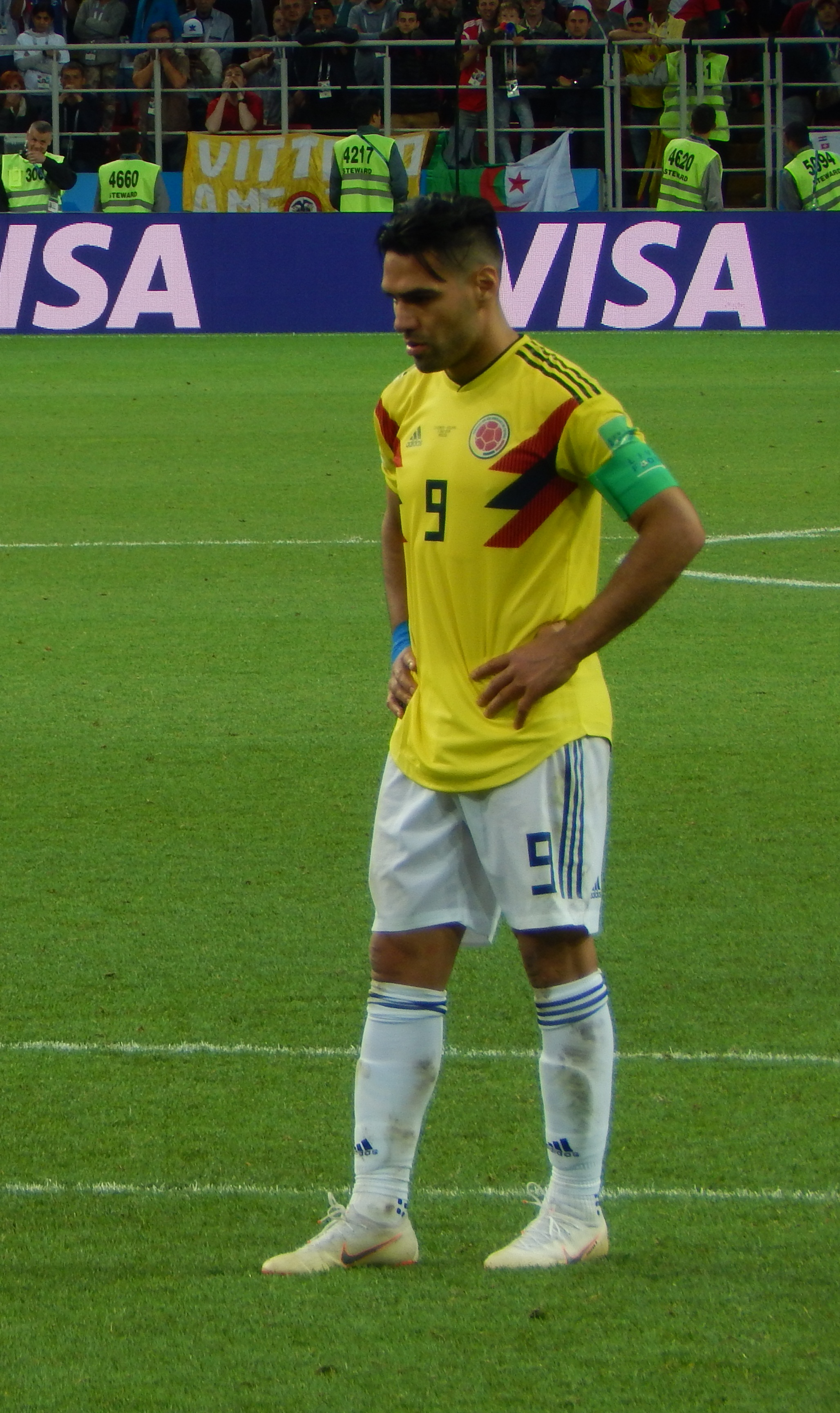 FIFA World Cup 2018, Round of 16, Colombia vs. England. Radamel Falcao before his penalty kick during the shoot-out